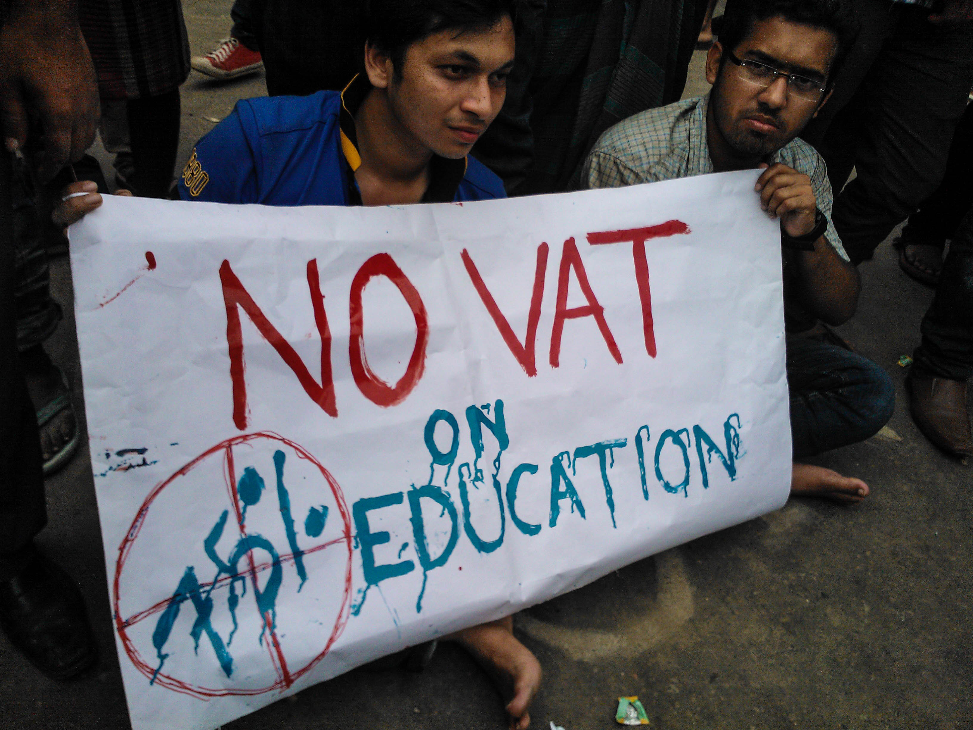 Students of private universities in Bangladesh are demonstrating in different parts of Dhaka on Thursday (September 10, 2015) protesting the 7.5 percent VAT on their tuition fees.